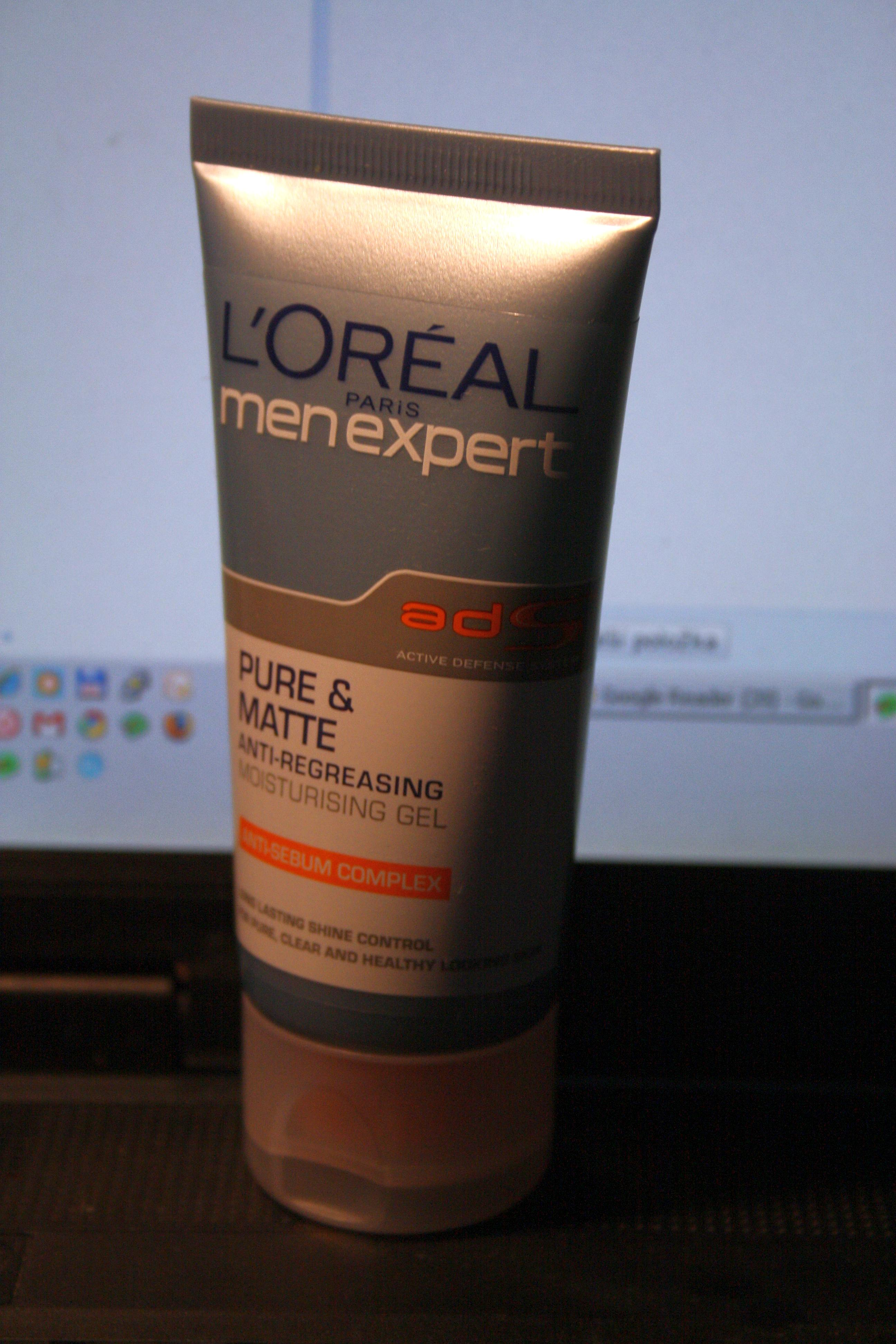 Men Antiregreasing gel by L'oreal Men.